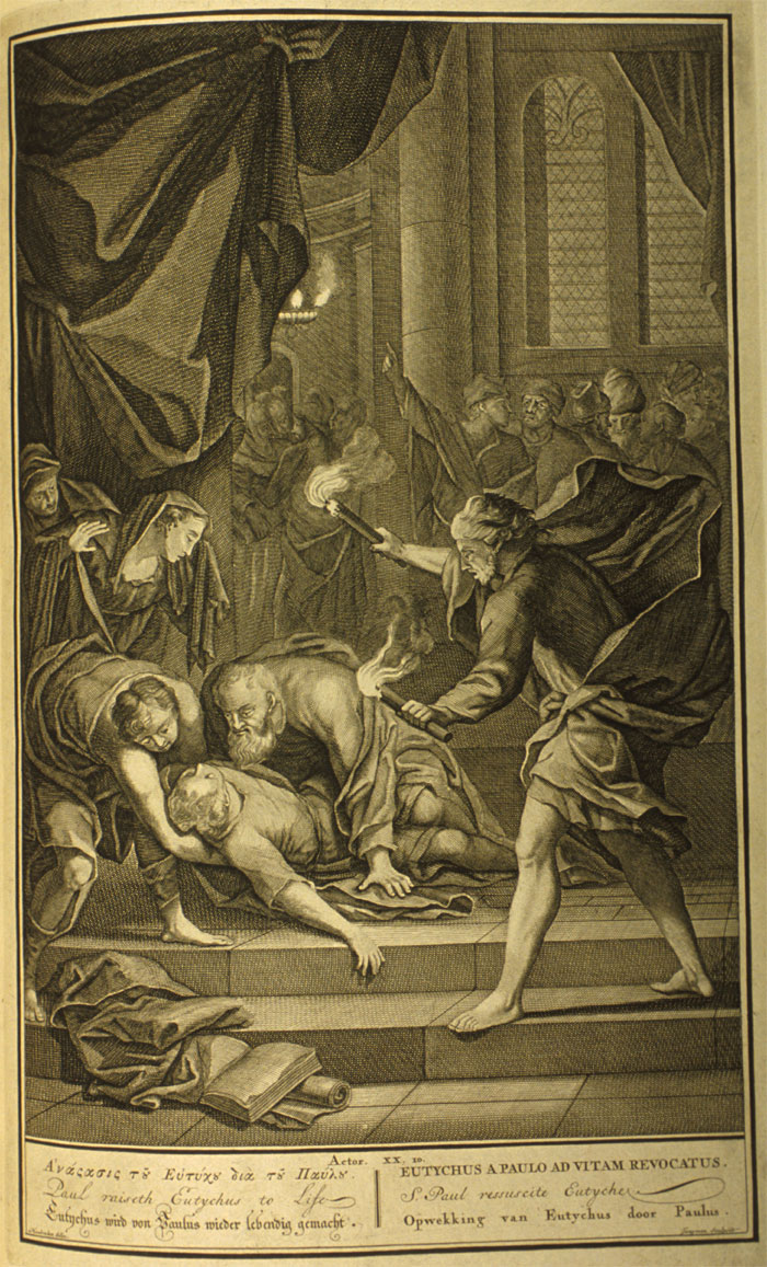 Depiction of Acts 20:9,10 from the Figures de la Bible (1728)